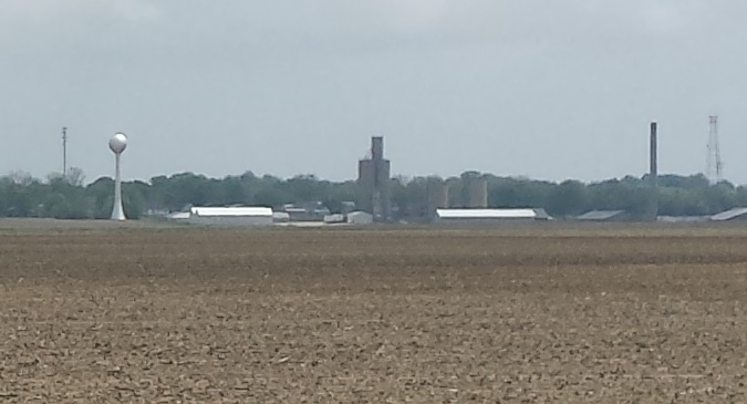 Image of Fort Branch from West cropped around the former Emge Meats Processing Plant, which closed in 1996 and burned down in 2010.